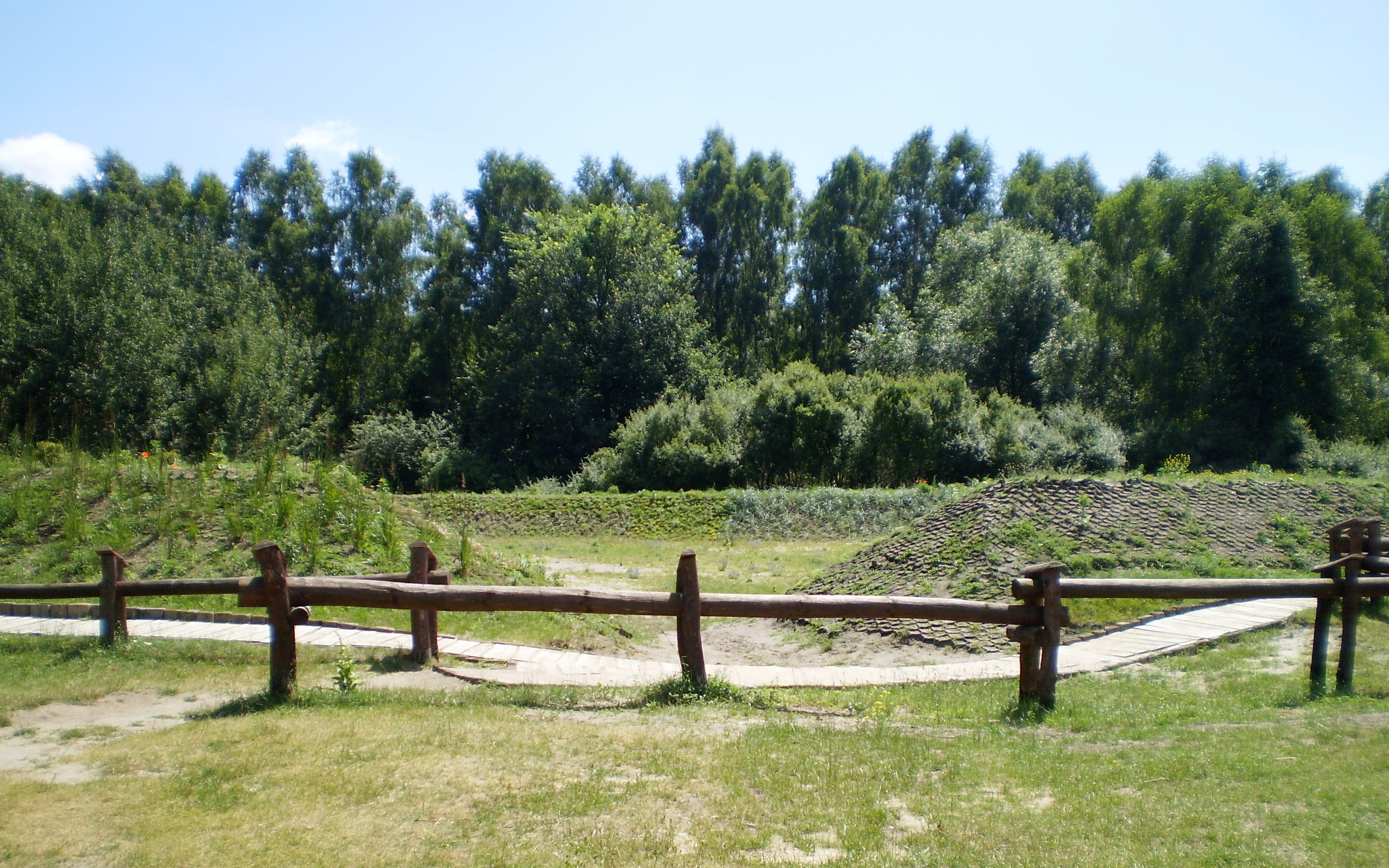 Bródno gord in Warsaw, Poland.